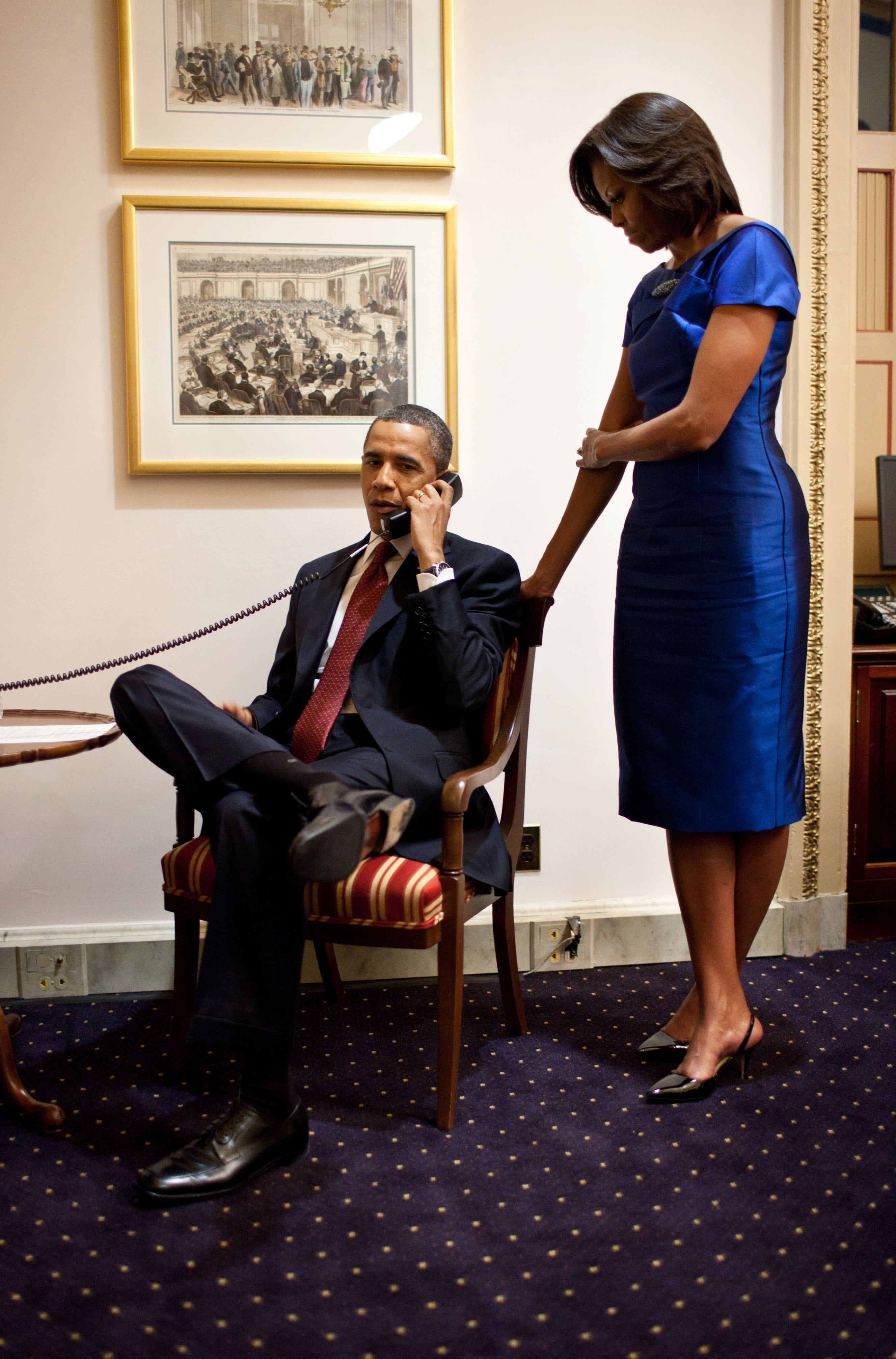 In a phone call from the U.S. Capitol immediately after the State of the Union Address, President Barack Obama informs John Buchanan that his daughter Jessica was rescued by U.S. Special Operations Forces in Somalia. First Lady Michelle Obama stands behind the President.